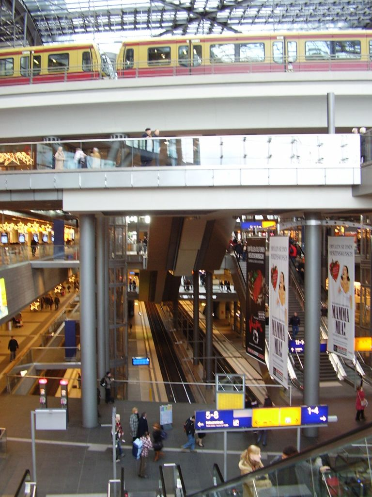 The inside-place of Berlin Hauptbahnhof